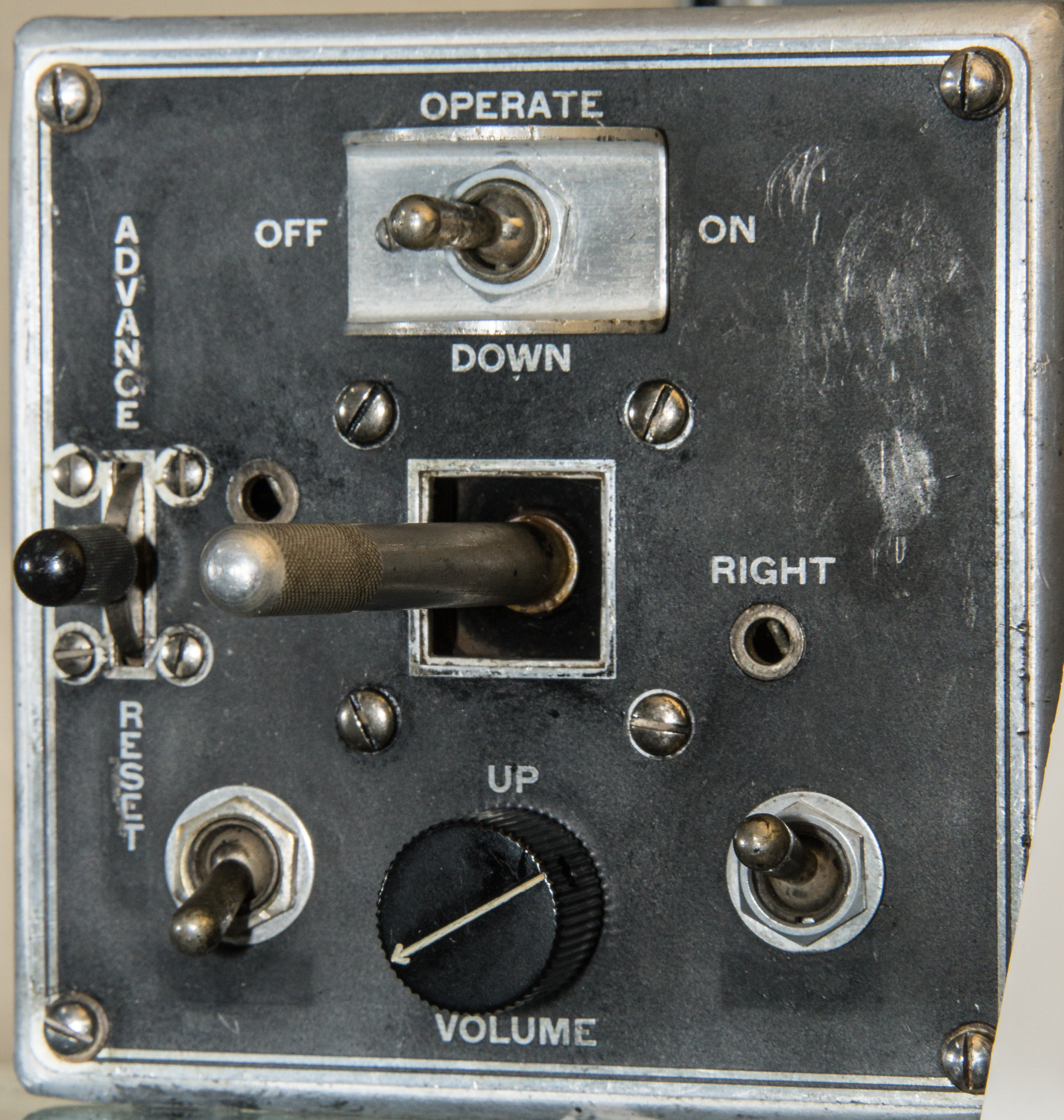 This is a World War II joystick for guiding bombs in flight. During the war, the Allies developed a system for guiding bombs so they could hit small targets, such as the wooden bridges that supported much of the Burma Railway. This system was known as AZON, because the guidance was “azimuth only” (i.e., the bomb could only be steered left or right, but the length of its path could not be changed). To control the bomb’s direction a collar with radio-controlled fins was attached to the back of a standard bomb, such as an M-65 1000 pound bomb. A flare was also attached to the bomb so the bombardier could more readily track the bomb as it fell. In combat, an AZON bomb was dropped from a Consolidated B-24 Liberator. After the bomb was released, the bombardier watched the bomb fall and used the BC-1156 control lever to steer the bomb left or right. While some AZON bombs were used in Europe, they were primarily used, with considerable success, in the China-India-Burma theater.